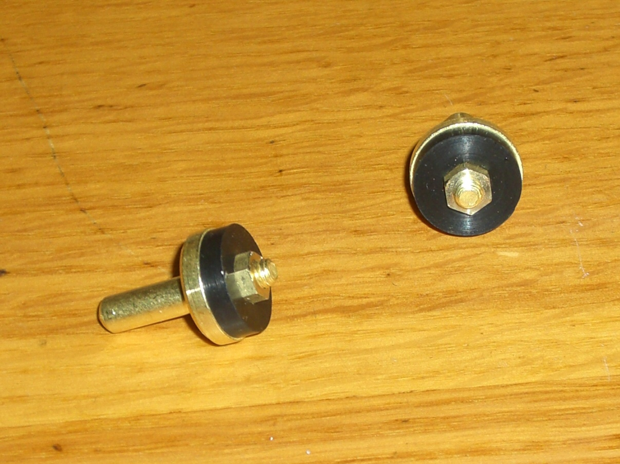 packing parts for water system (Seal_(mechanical)); 水道のパッキン (シール (工学))